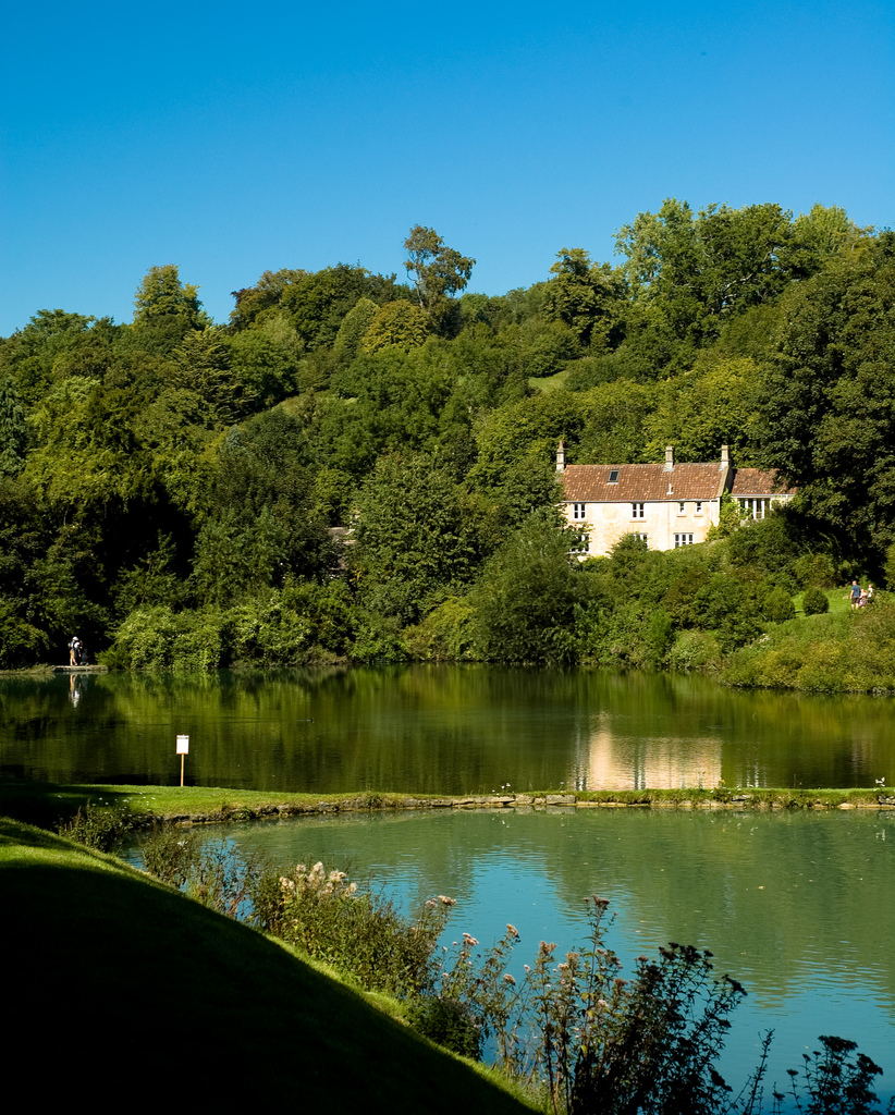 Cottage at Prior Park